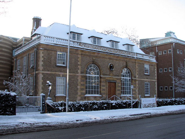 The Scott Polar Research Institute On as snowy a day as we ever get in these parts.